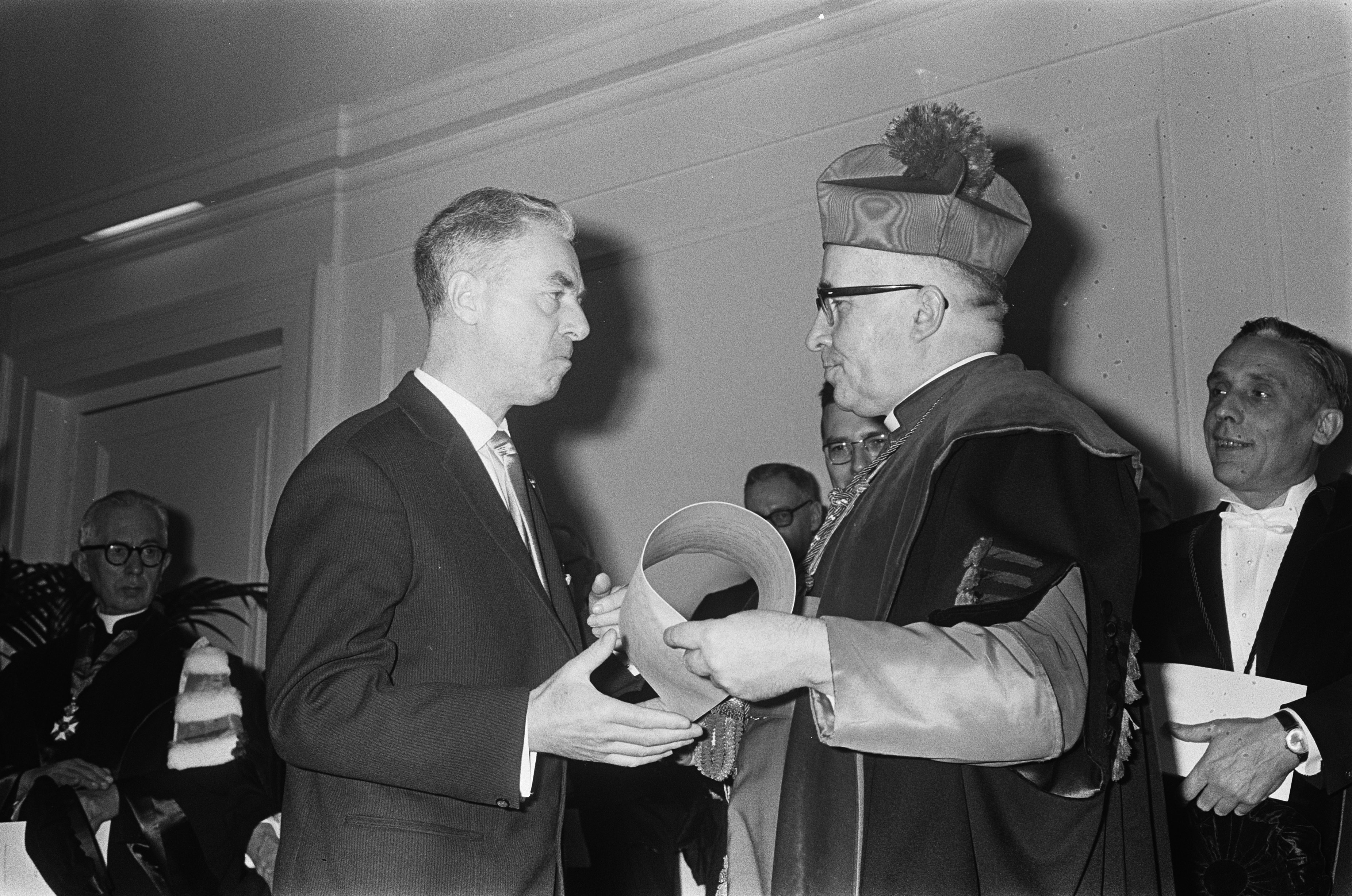 Honorary doctorates at Leuven University (Belgium), 2 February 1967. Left to right: Antoine Braun, Giuseppe Ferri (??)(1908-1988), Roger Blais (??)(1905-1992), rector Albert Descamps, Piet De Somer